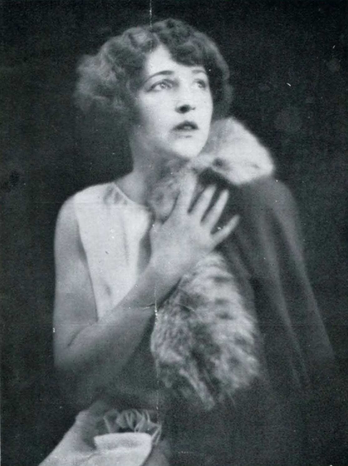 I believe this is the stage and film actress Mary Newcomb that has a Wikipedia page